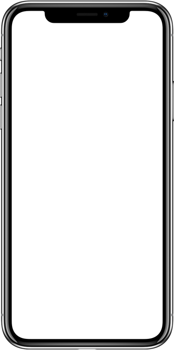 iPhone X